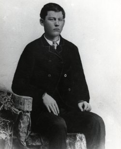 Bob Dalton